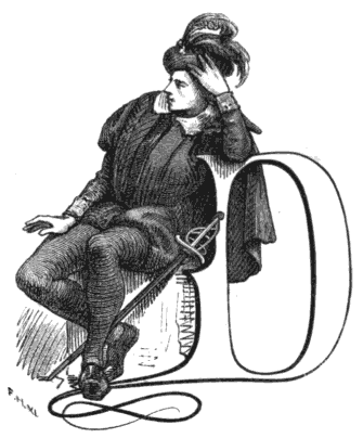 Danish actor Frederik Høedt (1820-1885).